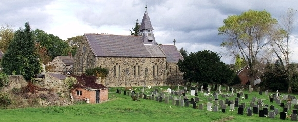 Original photograph taken by John Haynes, October 2005 St Thomas' Parish Church, Penycae, Wrexham, Wales